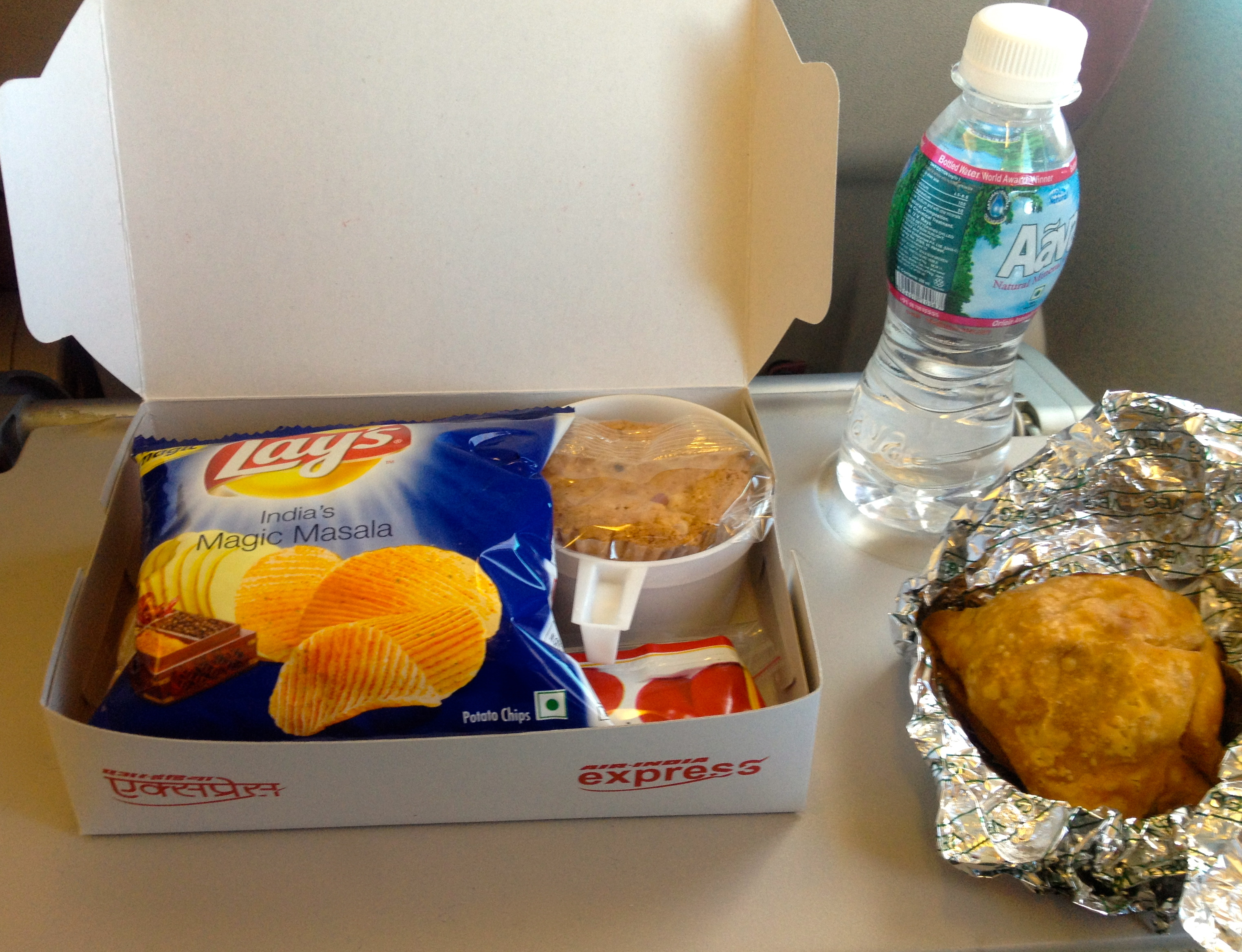 Contents of the food packet served aboard Air India Express flights